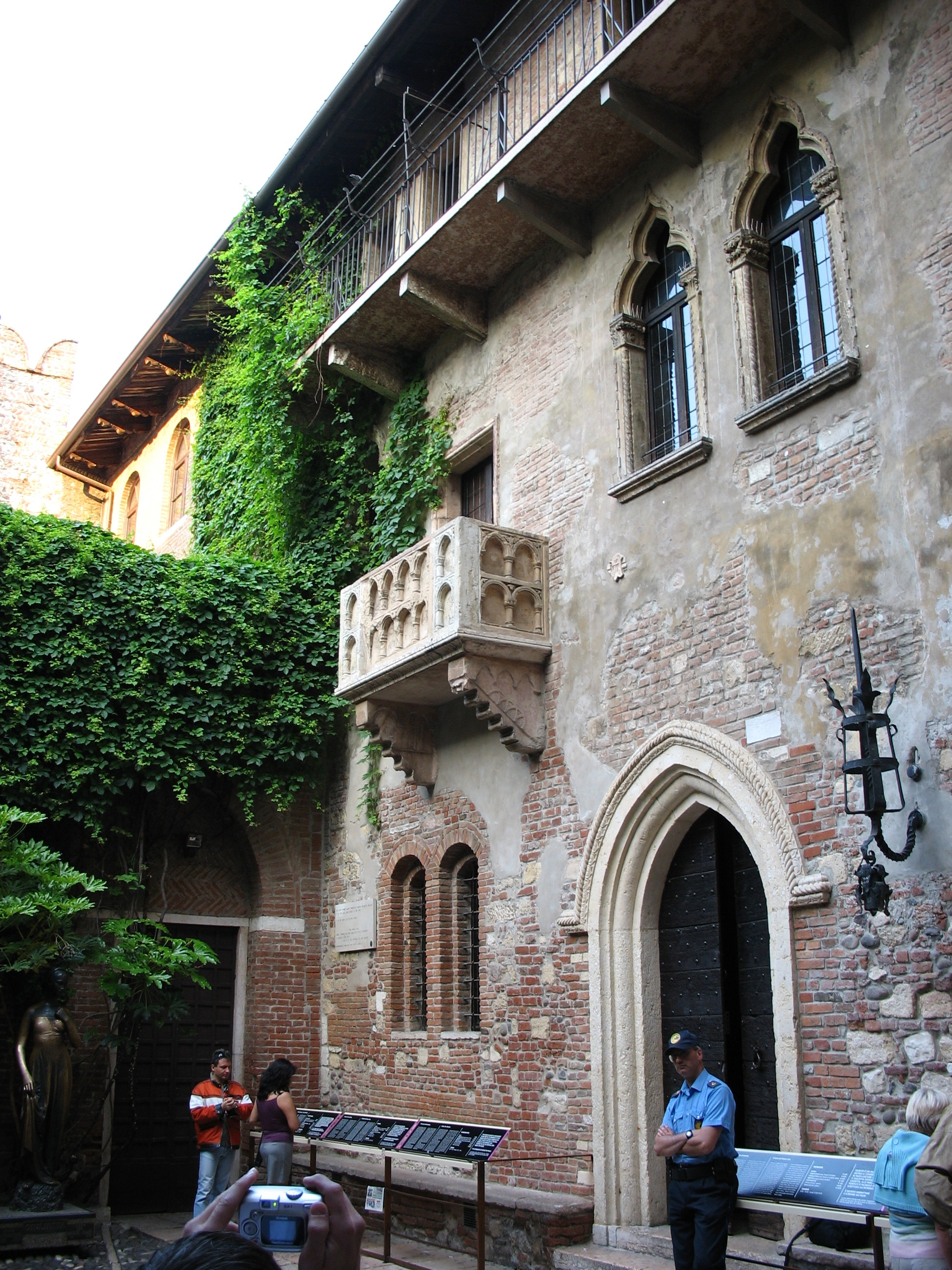 Legendary balcony of Juliet in Verona